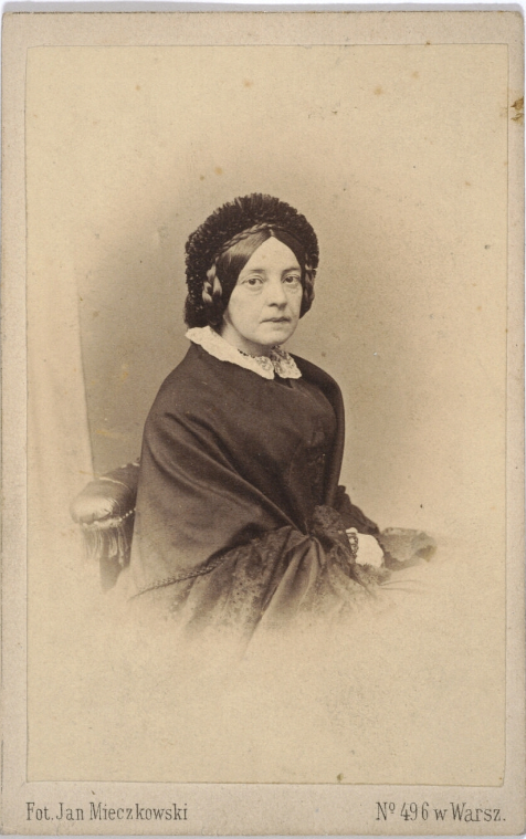 Photography of Eleonora Ziemięcka, ca. 1865